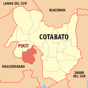 Map of the Cotabato showing the location of Pikit